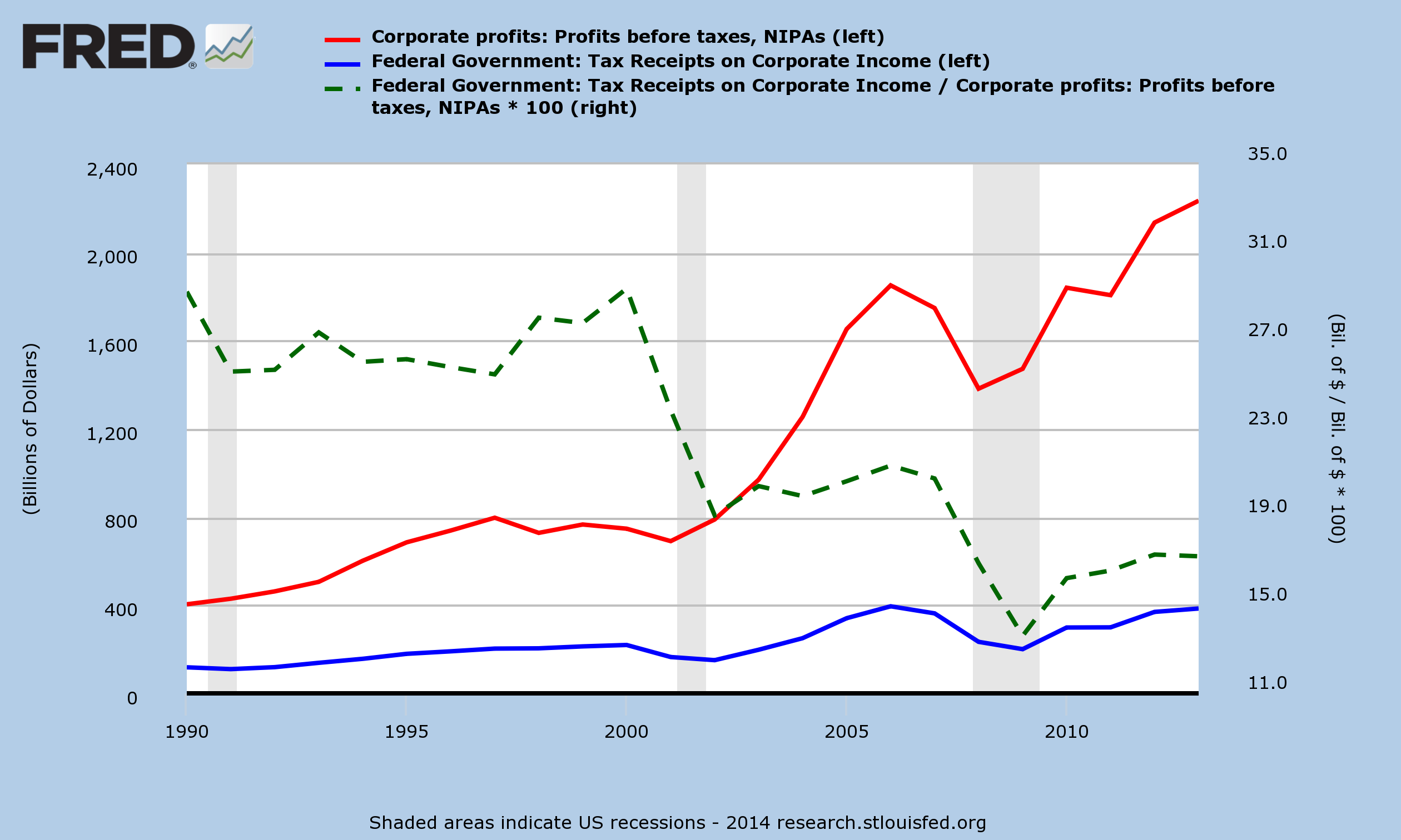 This shows Federal income tax receipts as a percentage of pre-tax corporate profits